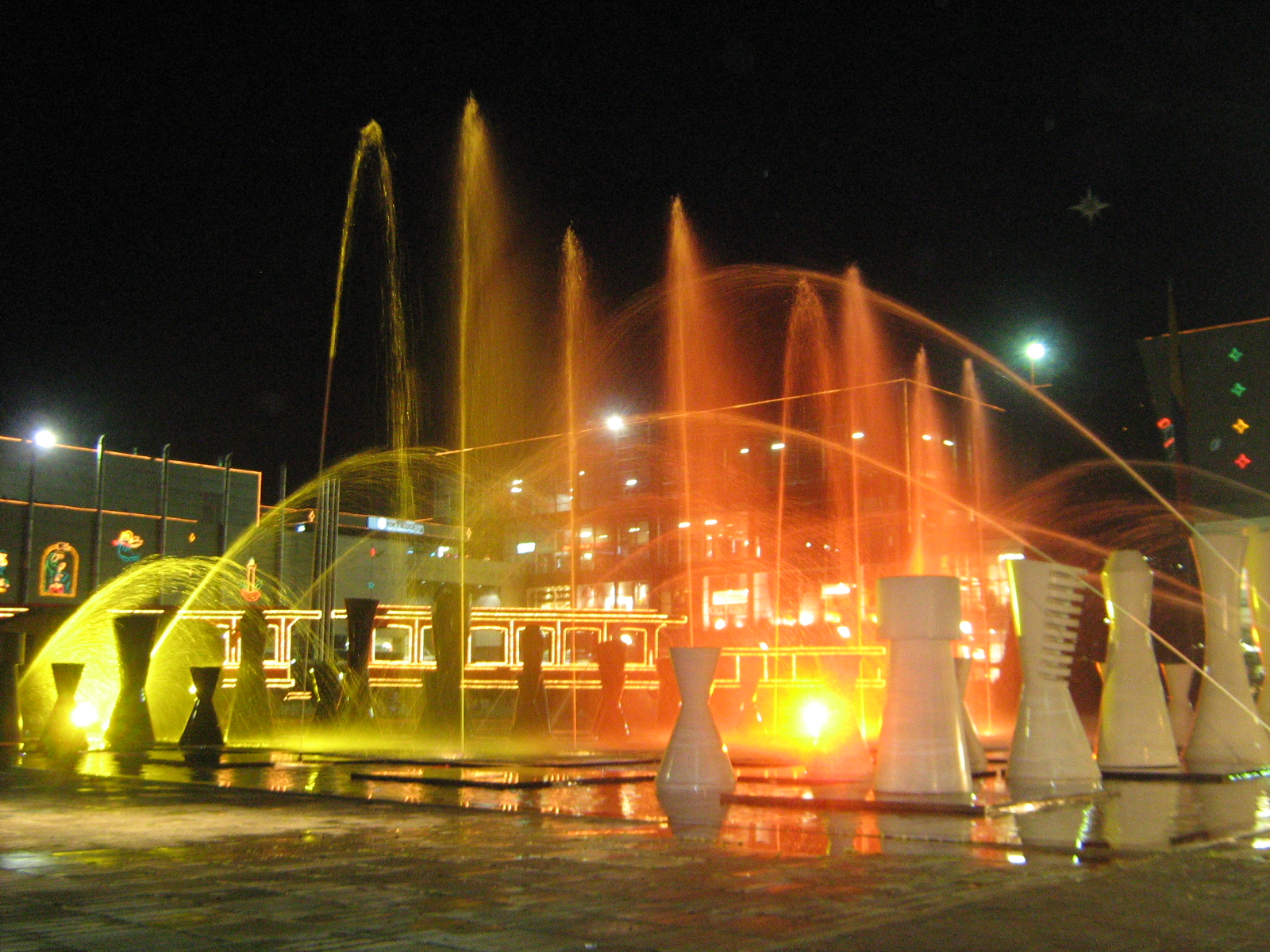 Chess Great Station shopping center in Bogota